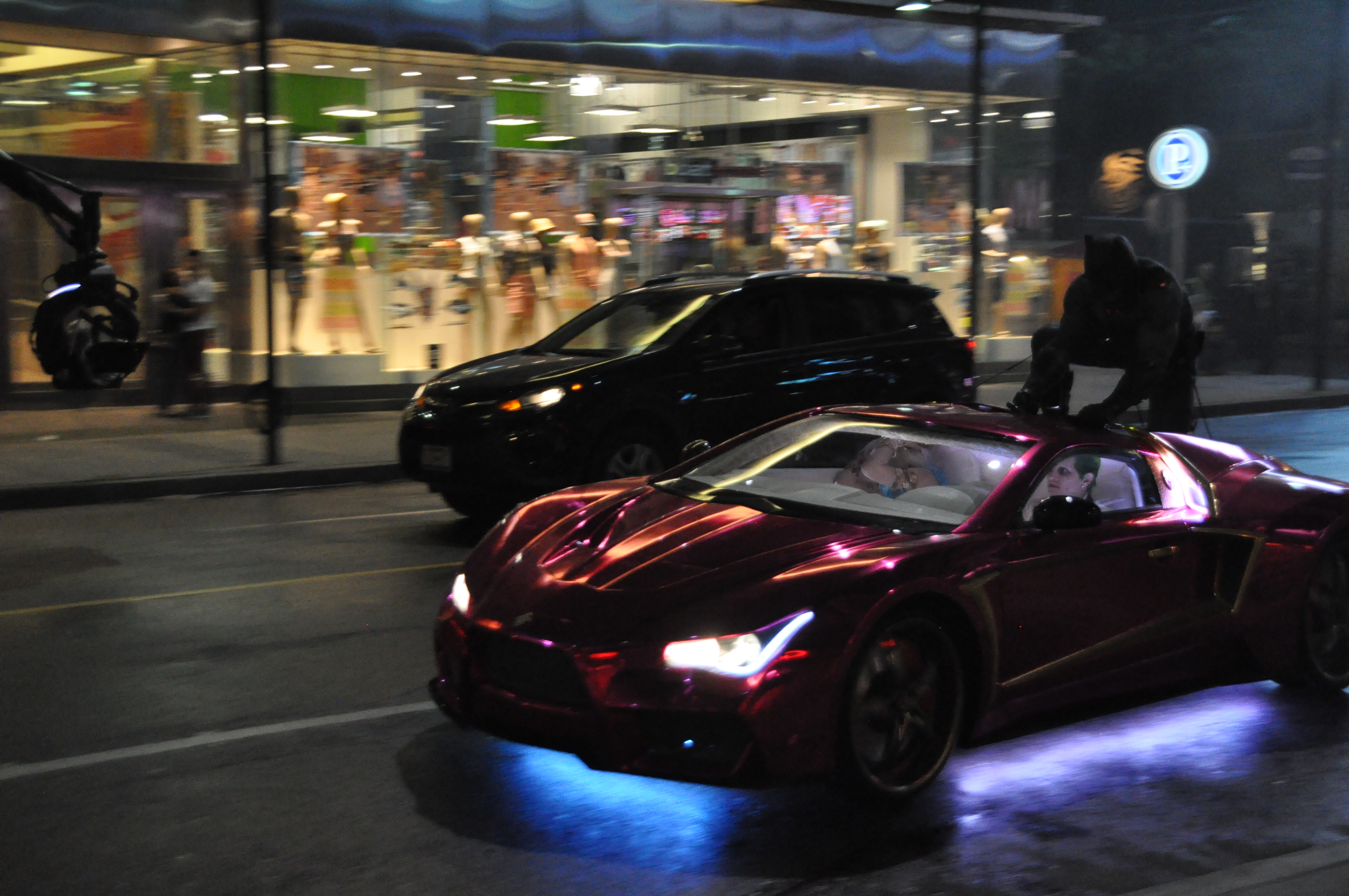 Suicide Squad filming in Toronto.